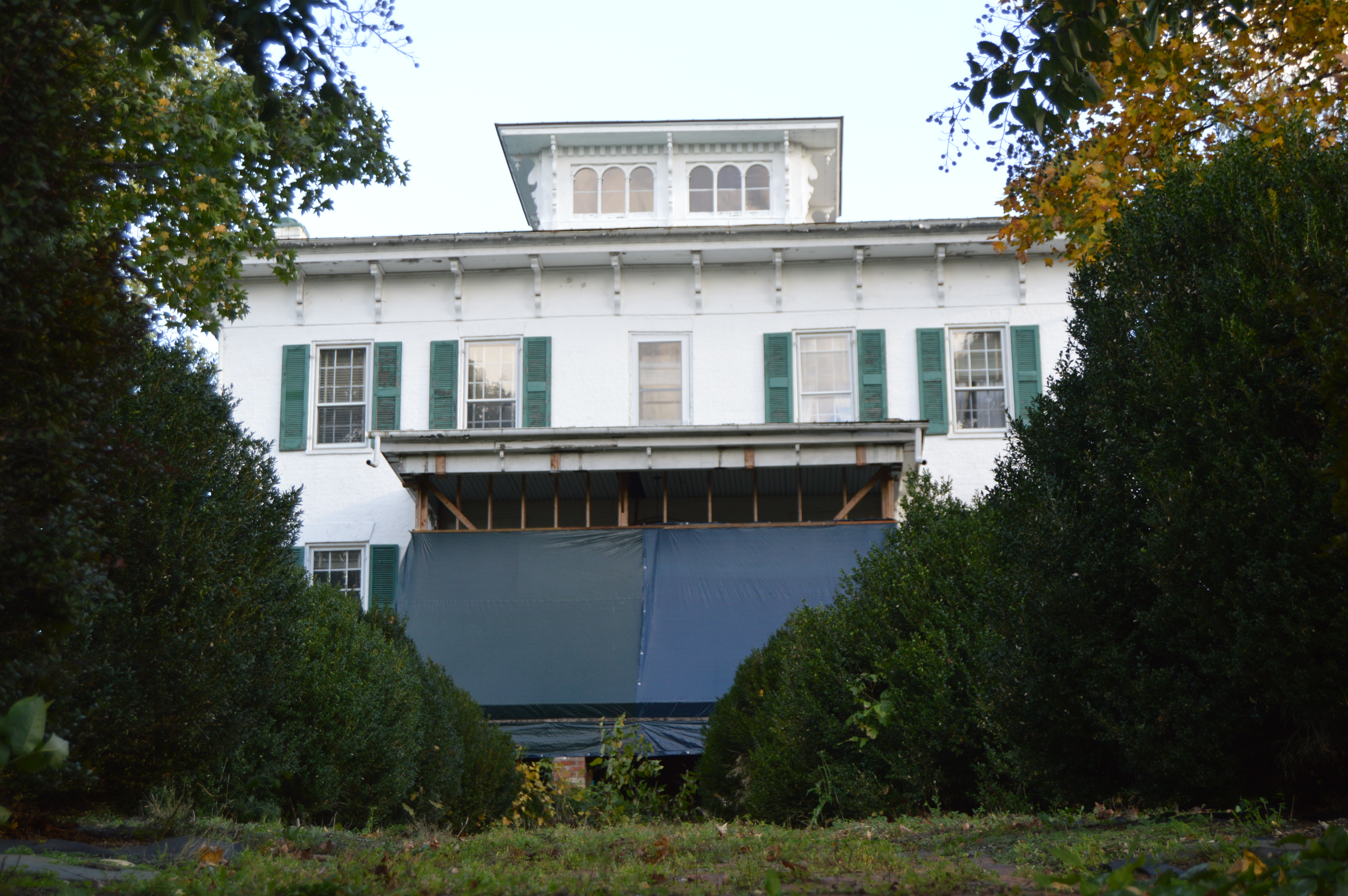 Northern side of Blandome, located at 101 Tucker Street in Lexington, Virginia, United States. Although this is the Tucker Street side, this is technically the rear; the house faces Fuller Street to the south. Built in 1830 and remodelled to its present appearance in 1872, it is listed on the National Register of Historic Places.